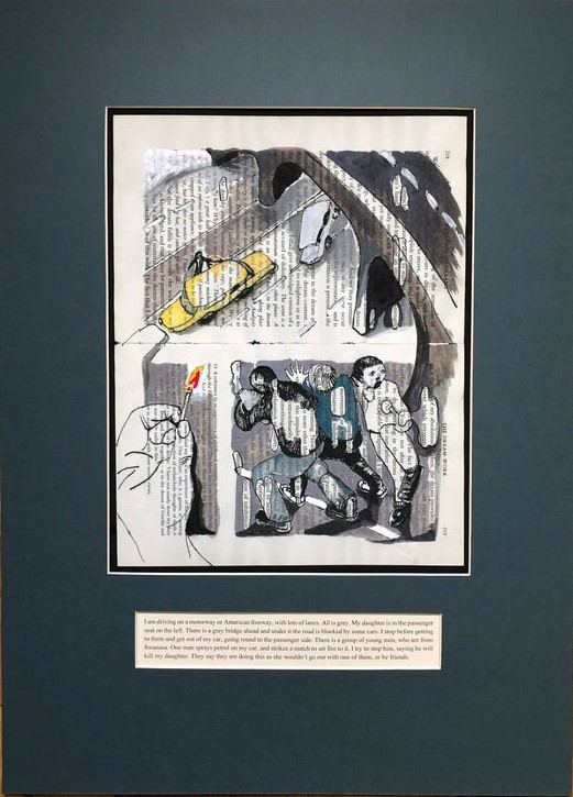 Painting by Julia Lockheart of dream of being Attacked on Freeway